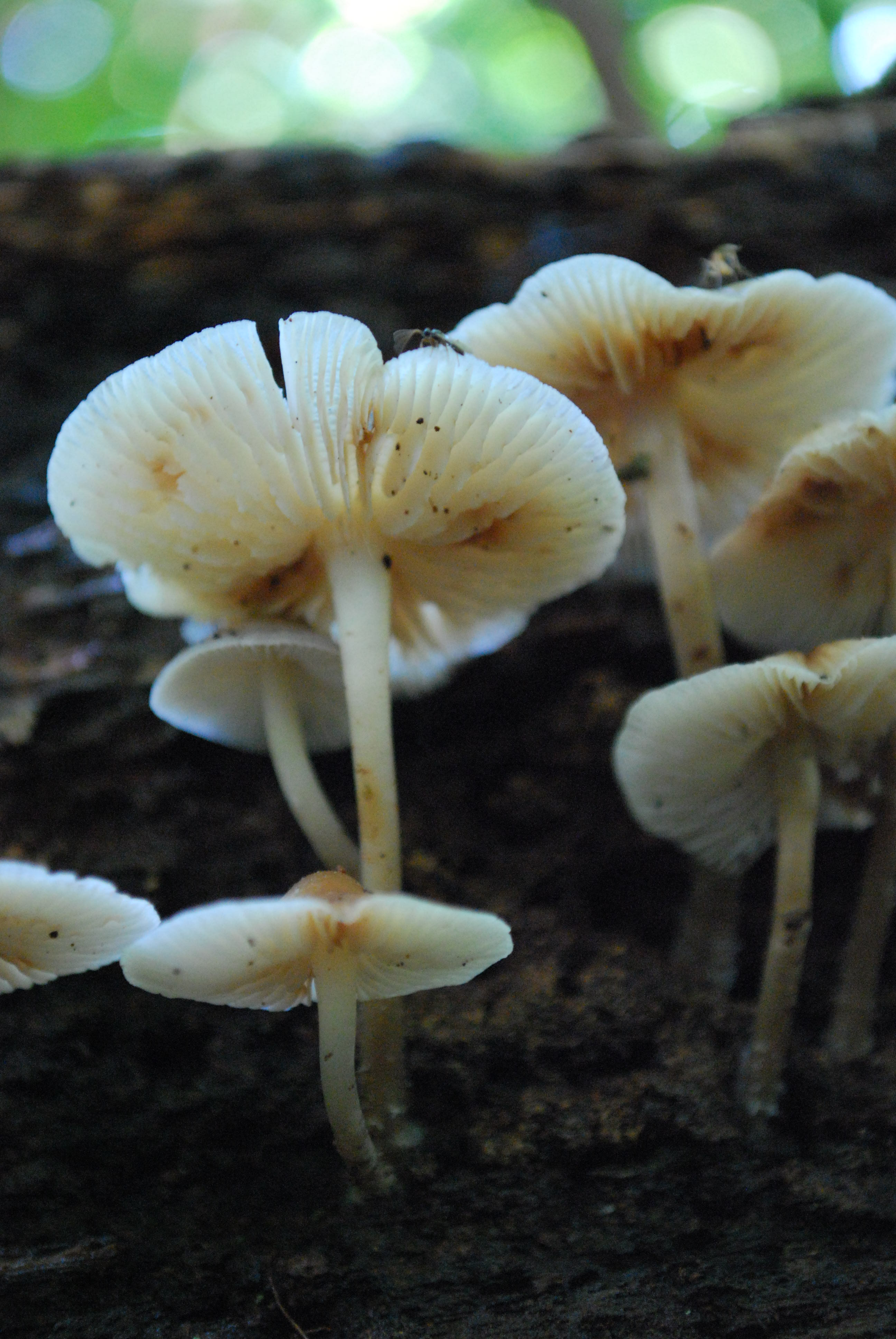 The fruit bodies of the fungus Mycena maculata P. Karst. Specimens photographed in Toronto, Ontario, Canada.